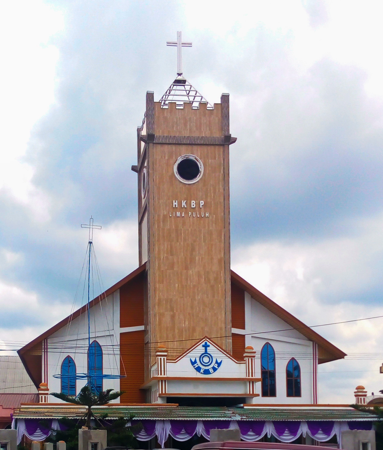 HKBP Lima Puluh, Res. Lima Puluh, Church in Lima Puluh, Batu Bara